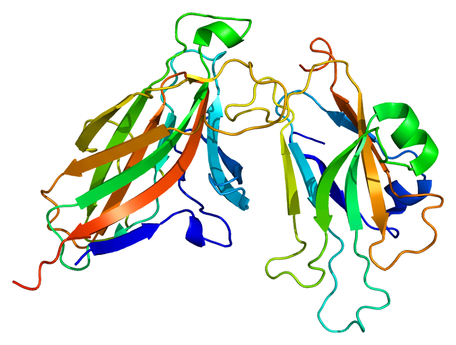 Structure of the EFNA5 protein. Based on PyMOL rendering of PDB 1shw.